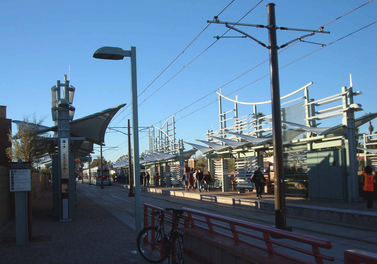 Photograph of the Uptown Phoenix (or Camelback at Central) Station of METRO Light Rail that serves the Phoenix area, Arizona, USA. This photograph was taken on December 29, 2008.